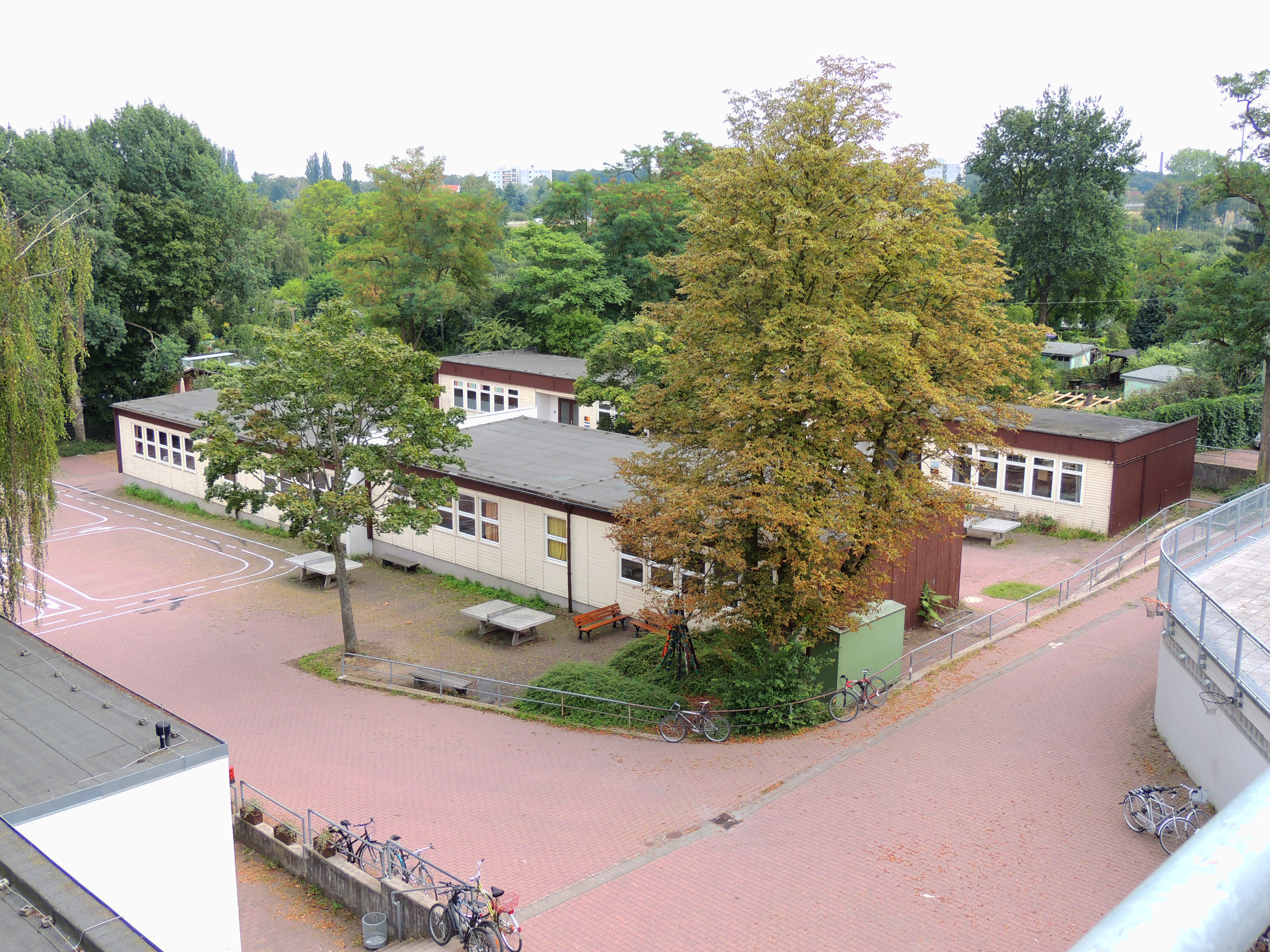 Court buildings of the Charles-Hallgarten-Schule near the Bornheimer Hang settlement in Frankfurt am Main-Bornheim, August 2013